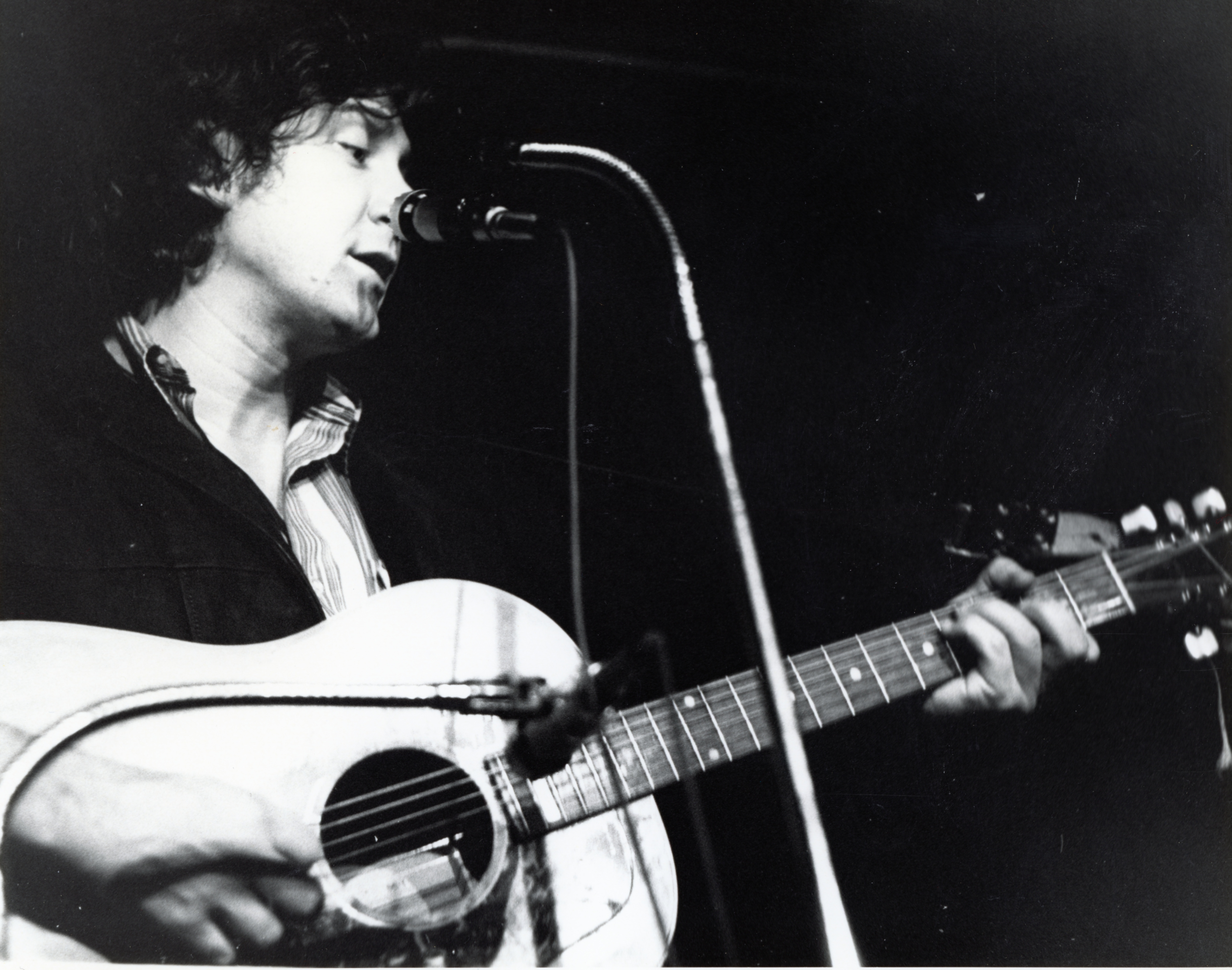 Phil Ochs